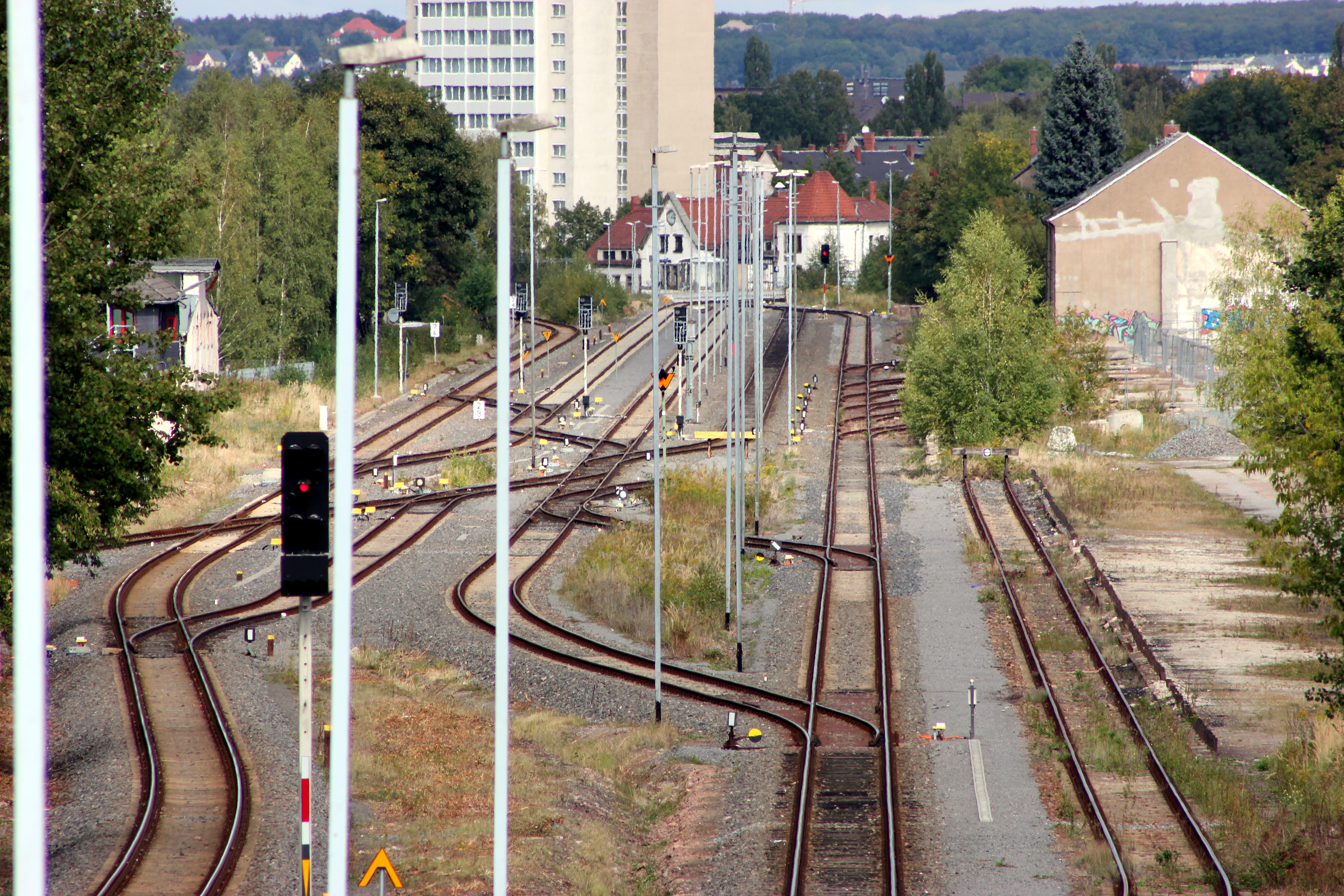 Rails in Chemnitz, Saxony near the Train station Chemnitz Süd.